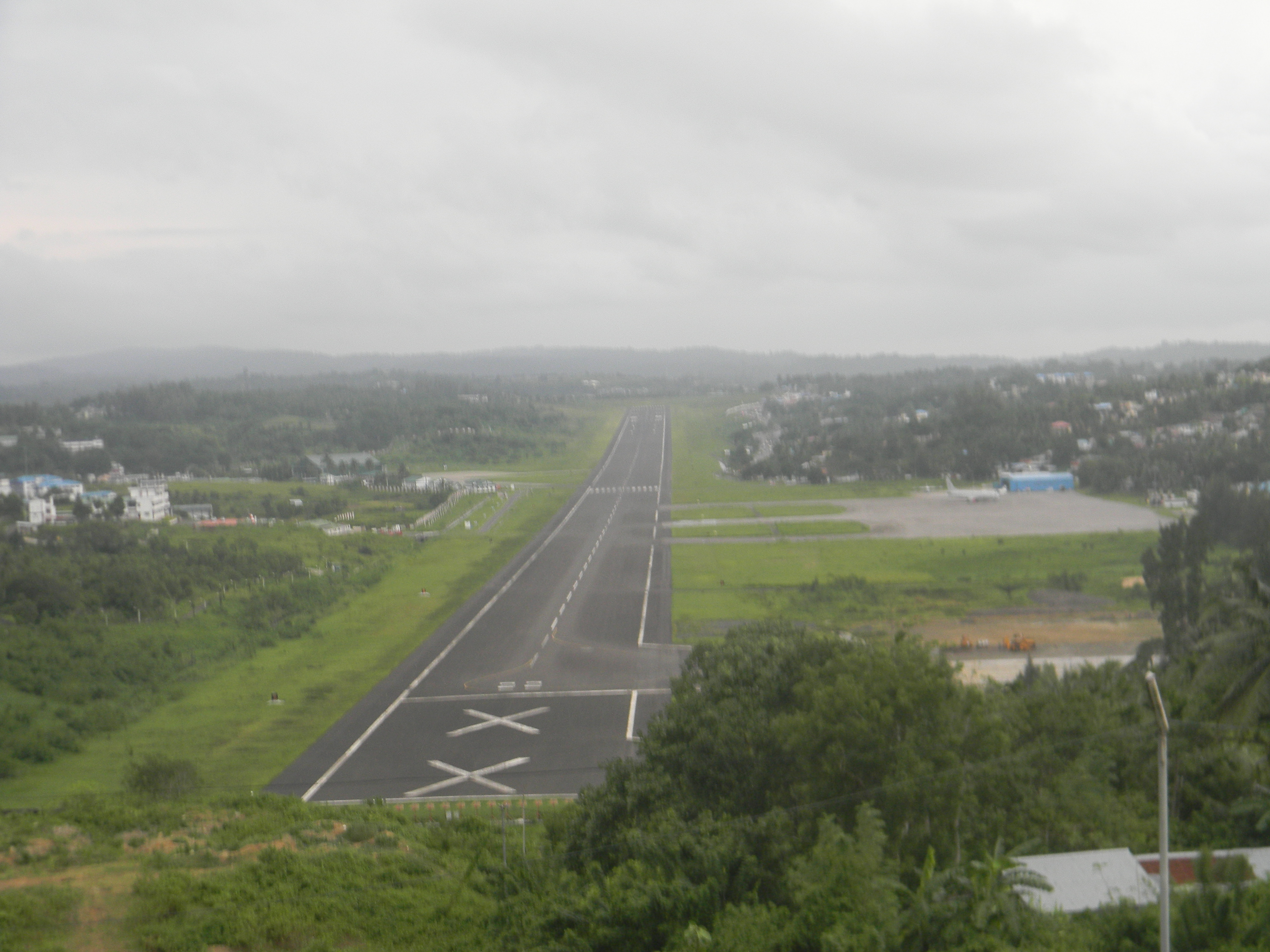 Port Blair Airport runway from Jogger's park, Port Blair.